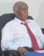 Muse Hassan Sheikh Sayid Abdulle, former interim President of Somalia and acting Speaker of the Federal Parliament of Somalia.